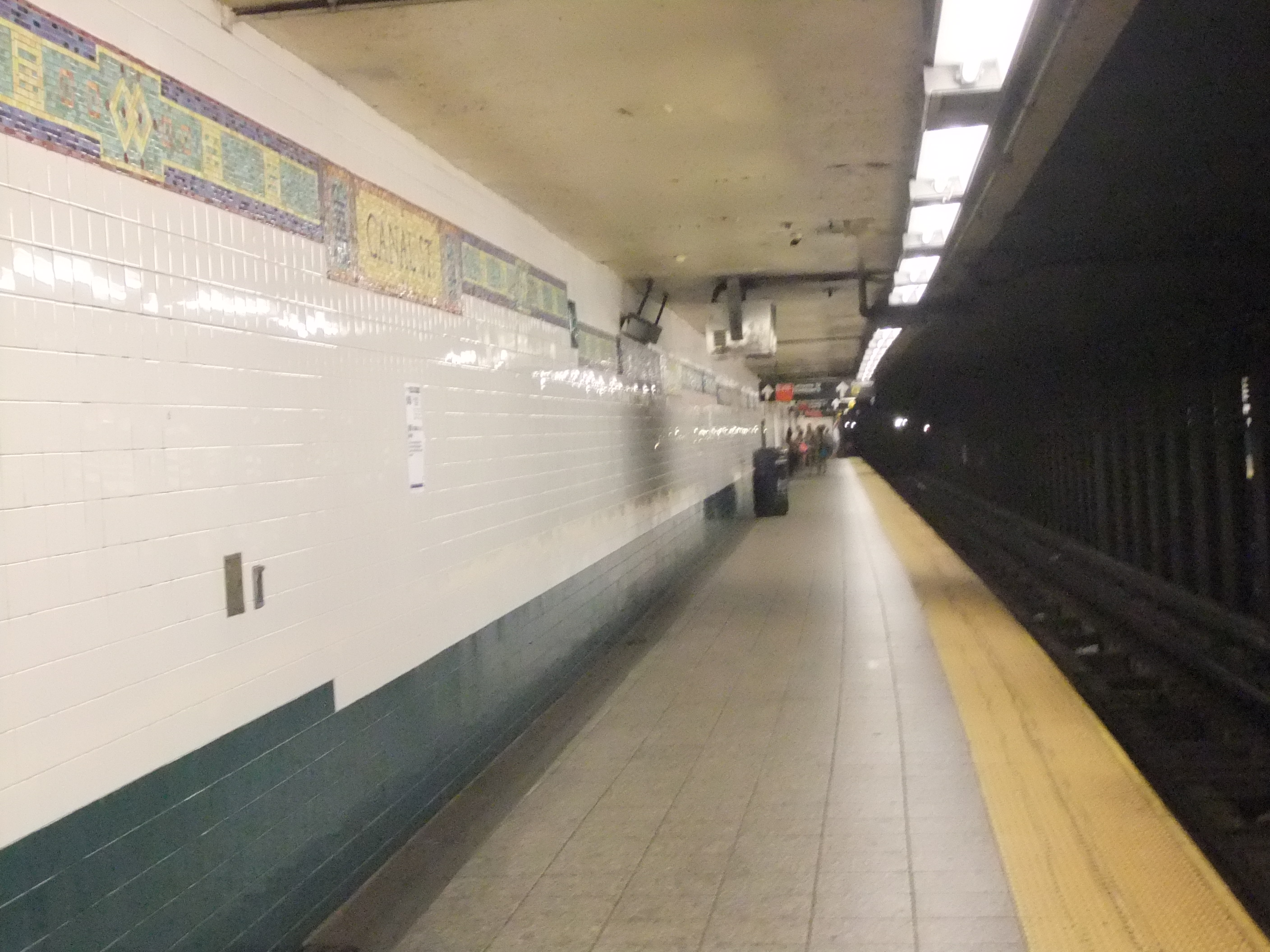 Brooklyn bound bridge N/Q/Weekend R platform at Canal Street (Bway)